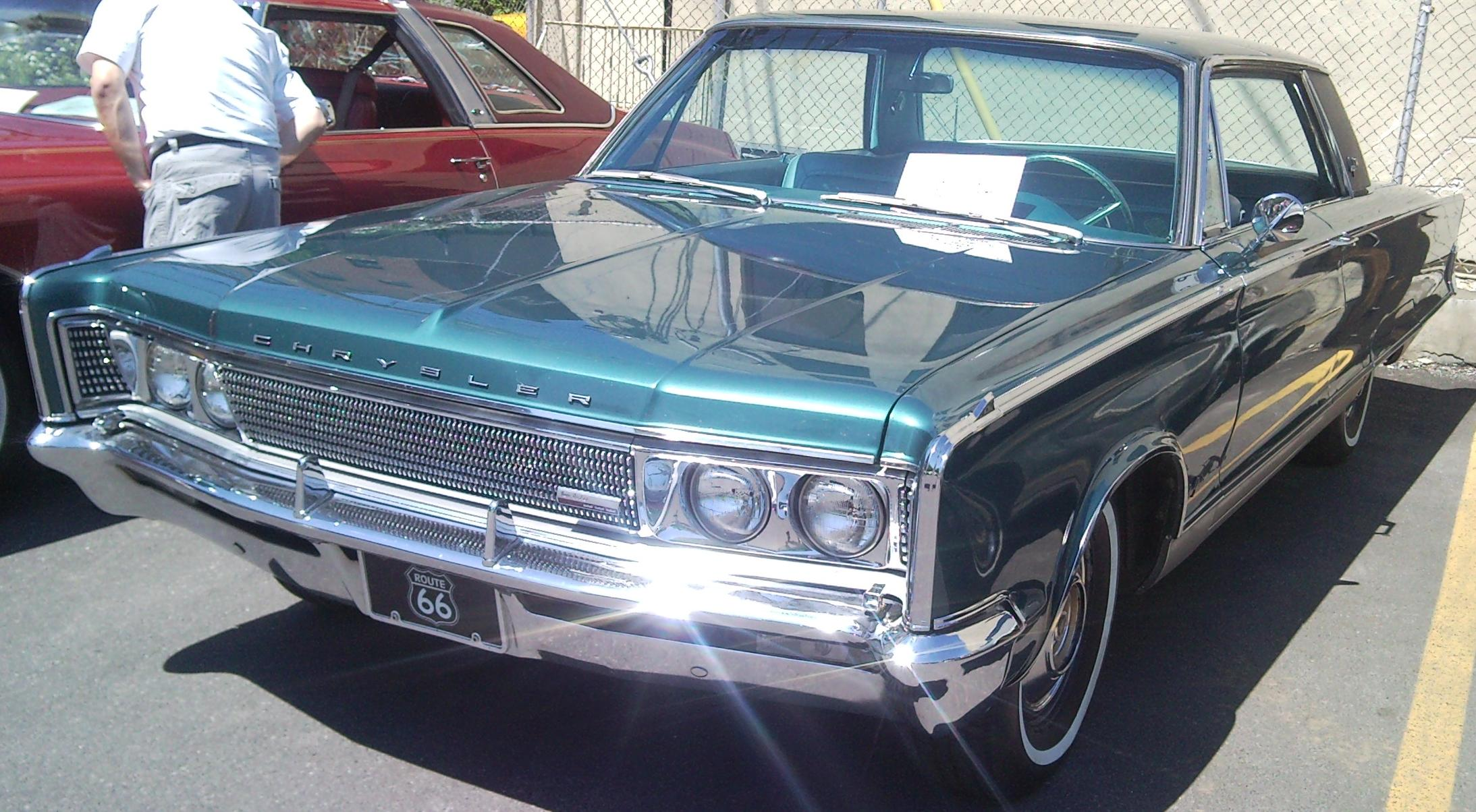 1966 Chrysler New Yorker photographed in St. Lambert, Quebec, Canada at Auto classique VAQ St-Lambert 2012.